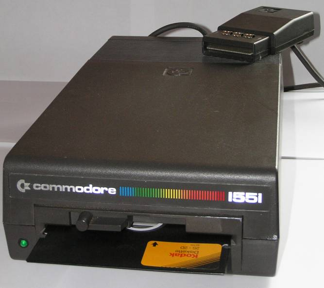 A photo of a battered Commodore 1551 disk drive, as used with a Commodore Plus/4 computer.